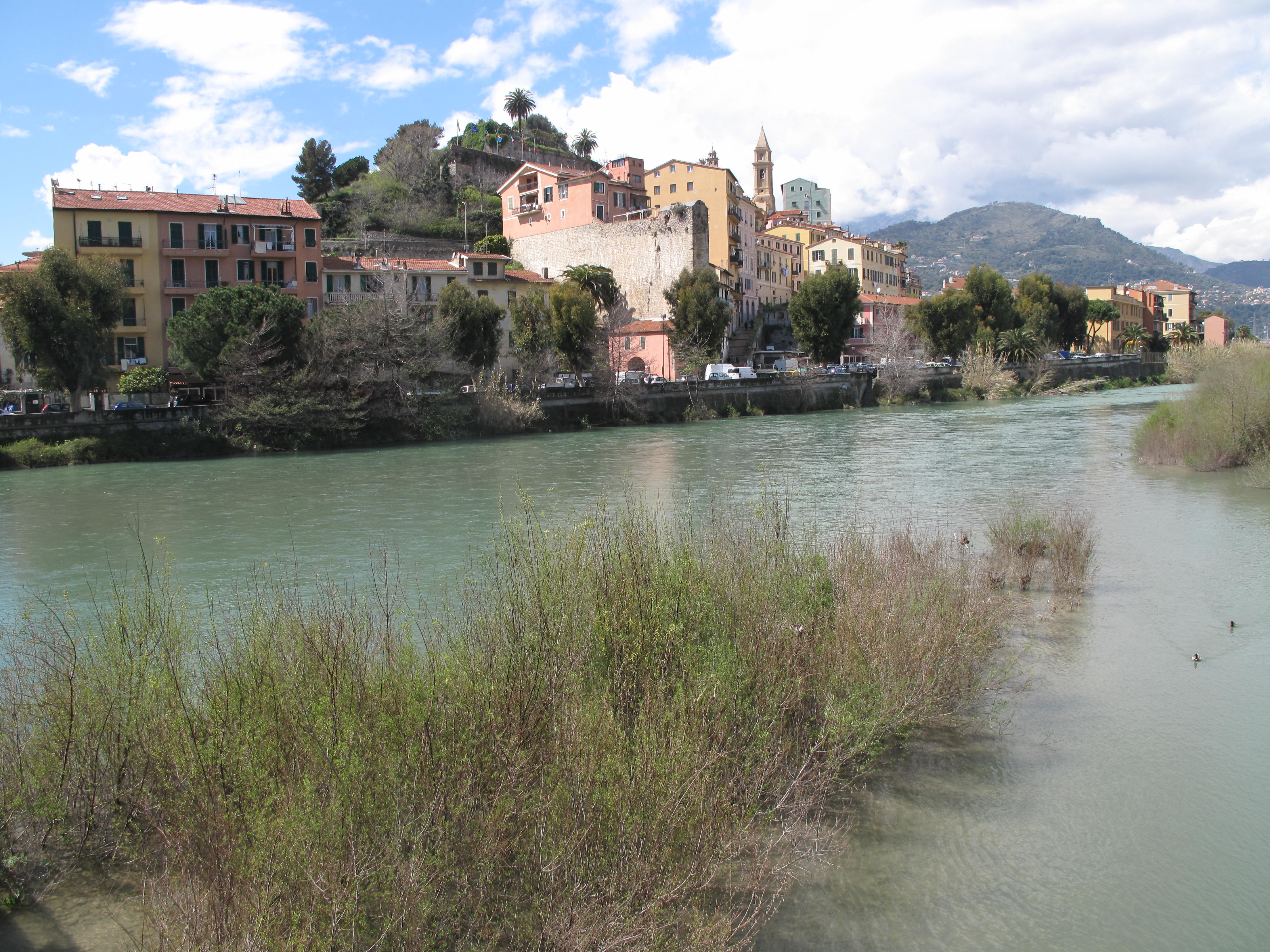 The old town of Vintimiglia (Liguria, Italy) along the Roya River.